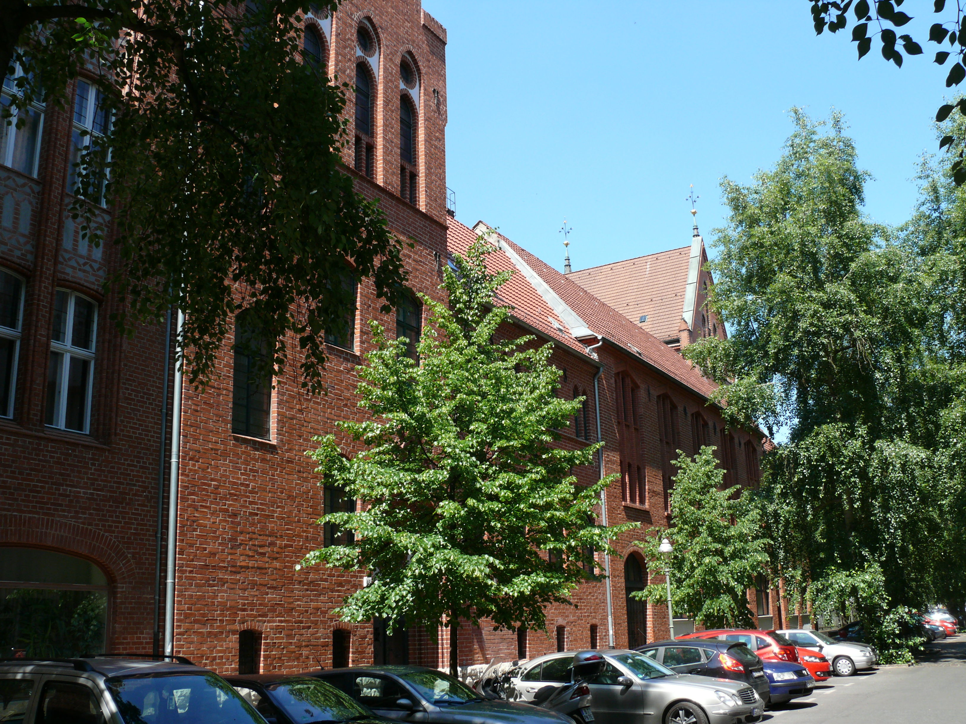 Berlin-Moabit Oldenburger Straße St. Paulus-Kirche